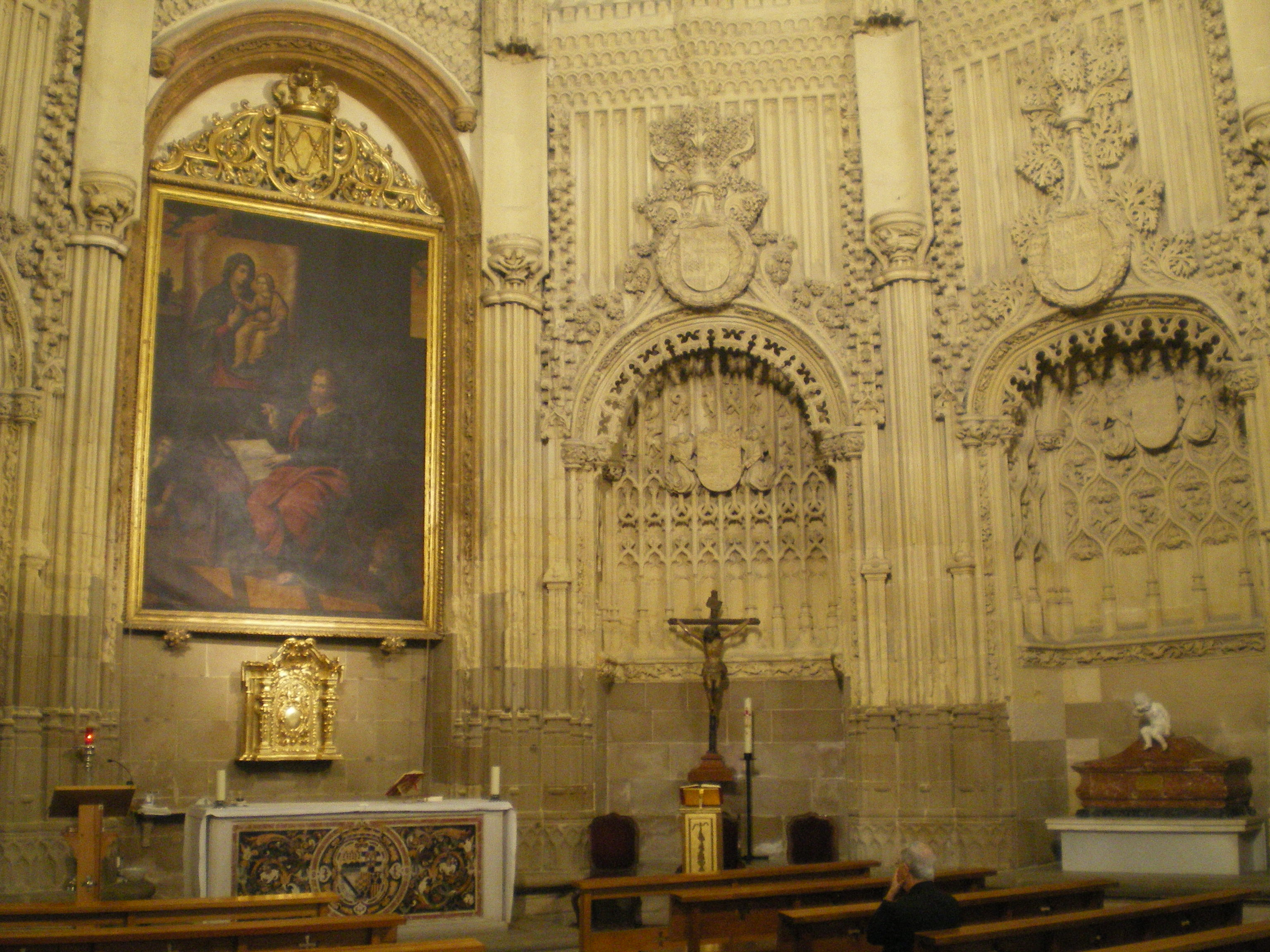 Capilla de los Vélez